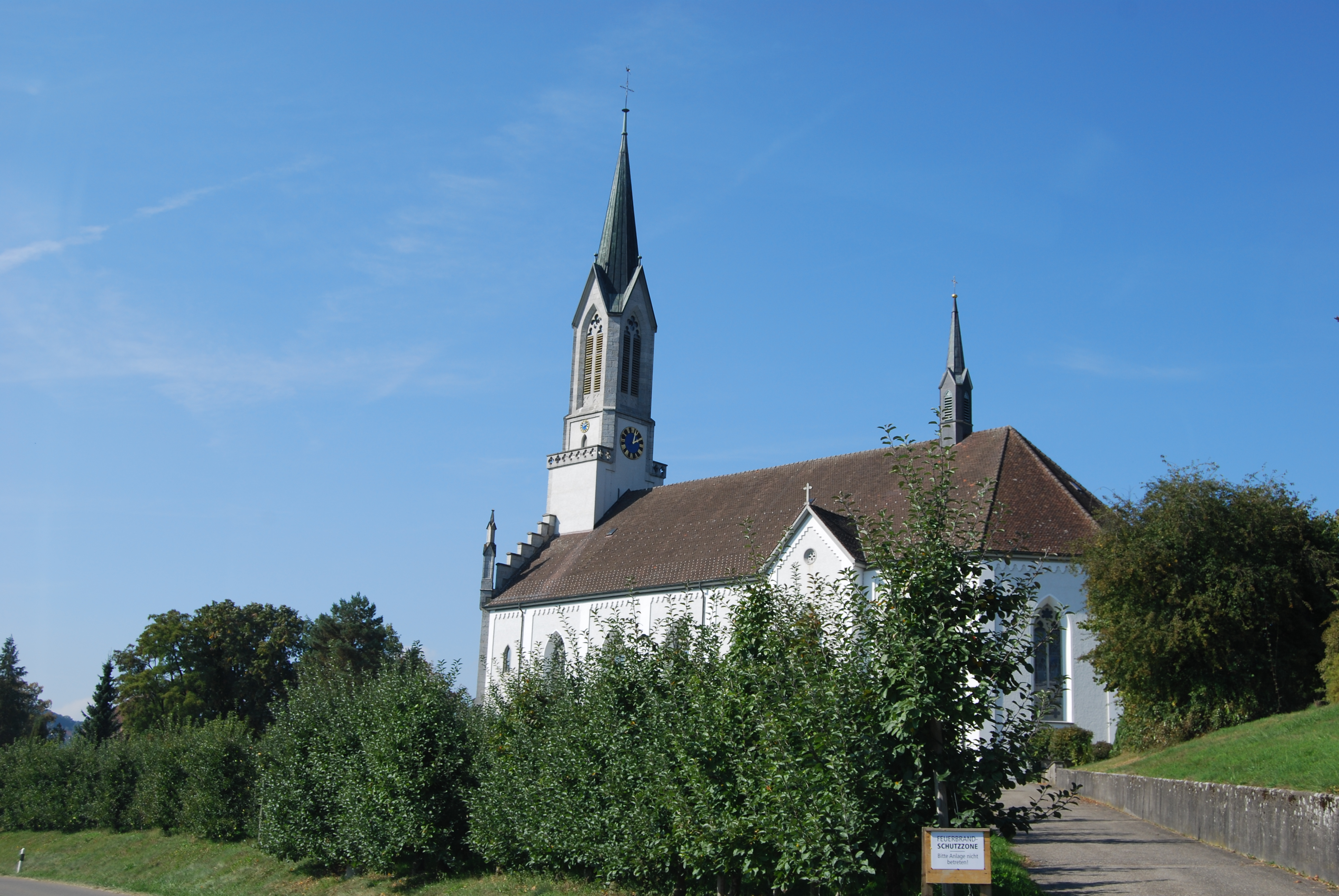 Church of Bünzen, canton of Aargau, SwitzerlandEsperanto: Preĝejo de Bünzen, Kantono Argovio, Svislando